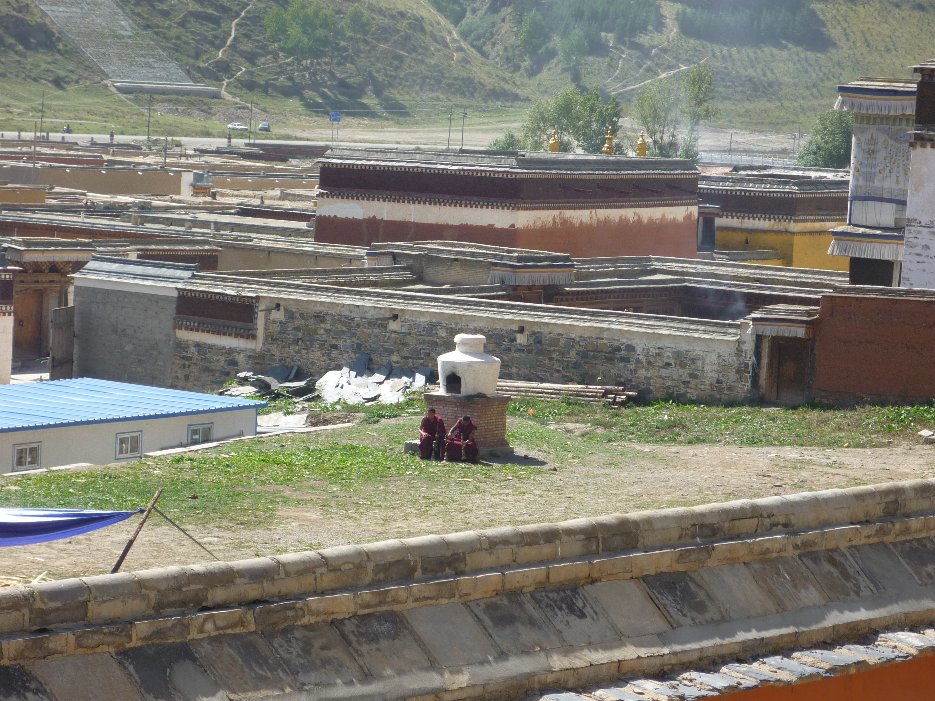 Labrang Monastery (Tibetan: བླ་བྲང་བཀྲ་ཤིས་འཁྱིལ་ Wylie: bla-brang bkra-shis-'khyil